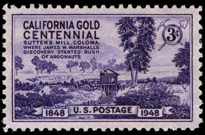 A 3-cent stamp issued on January 24, 1948 commemorated the centennial of the discovery of gold in California. The stamp pictures Sutter's Mill where the discovery started “the rush of Argonauts”.